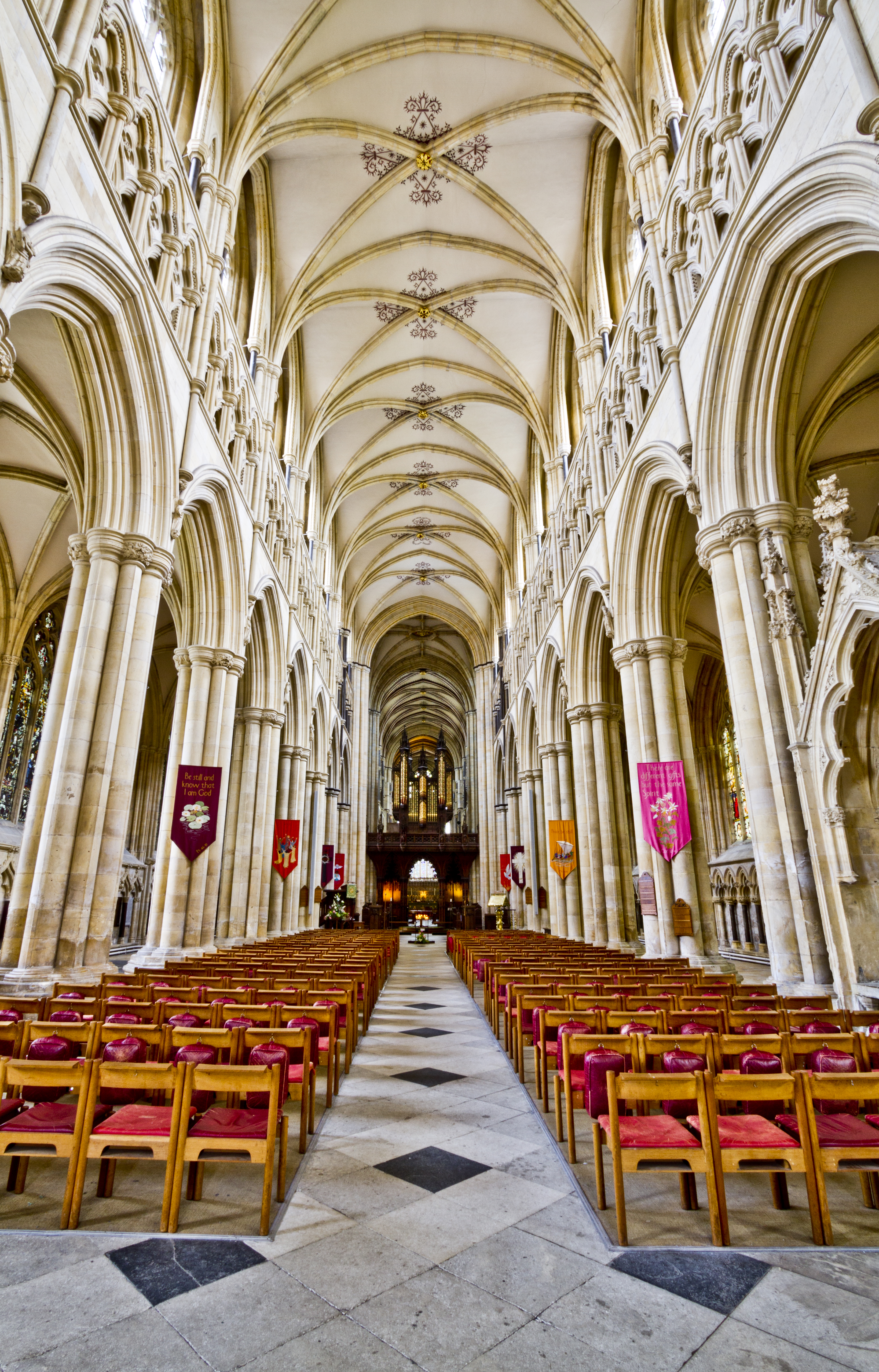 The Minster Church of St John, Beverley, East Riding of Yorkshire, England.